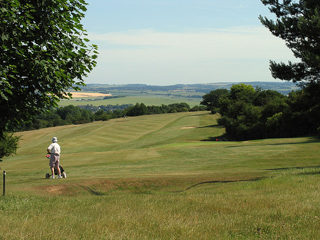 Streatley Golf Course. This golf course has a spectacular view of the Valley but with the very hot week and lack of much rain up till the day of photographing, is looking a little parched. The golf course takes up a large part of the square which also contains some residences.